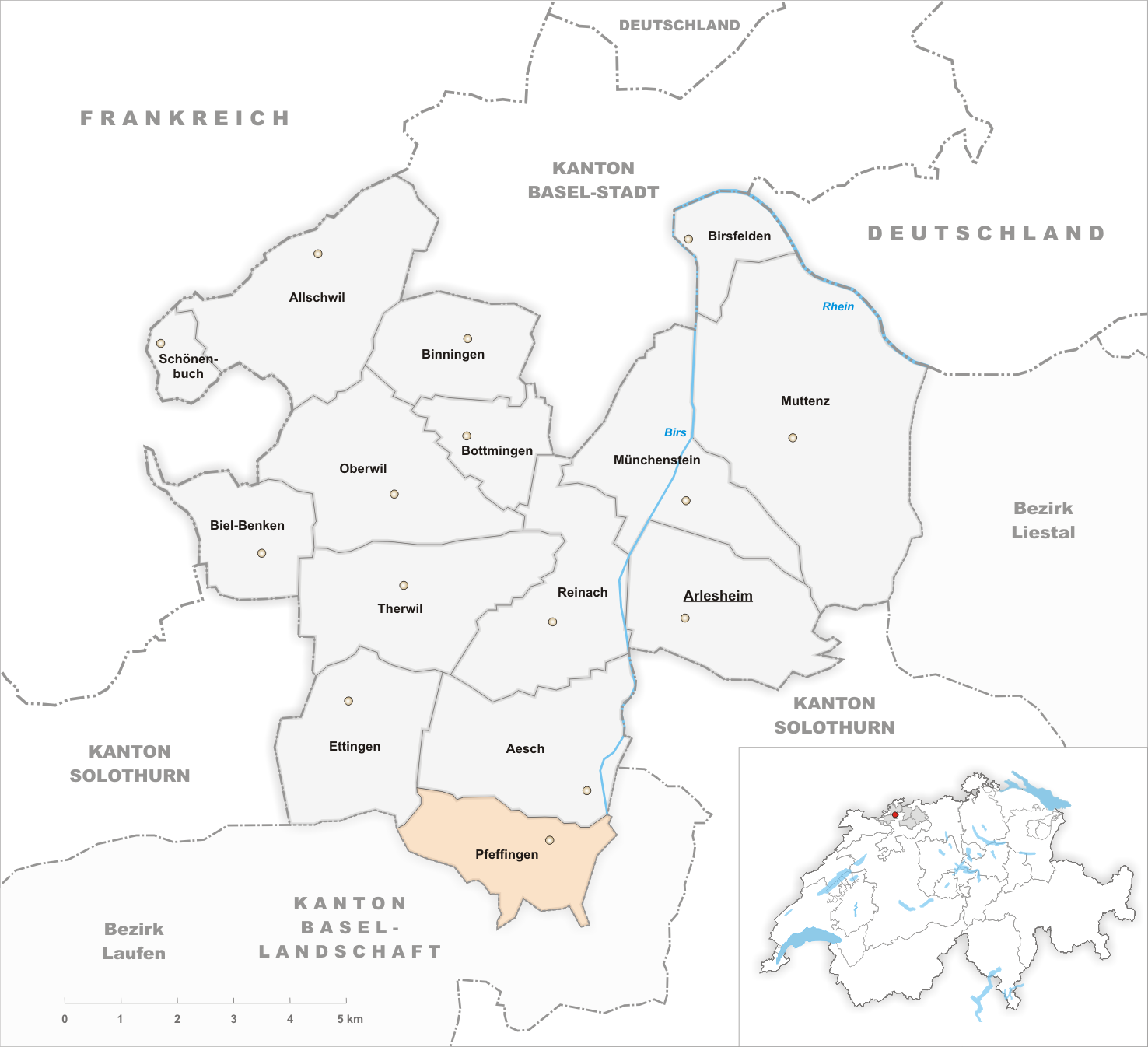 Municipality Pfeffingen